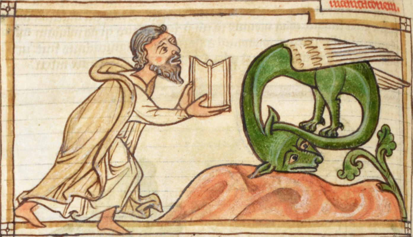 Asp - Bestiary Harley MS 3244, ff 36r-71v